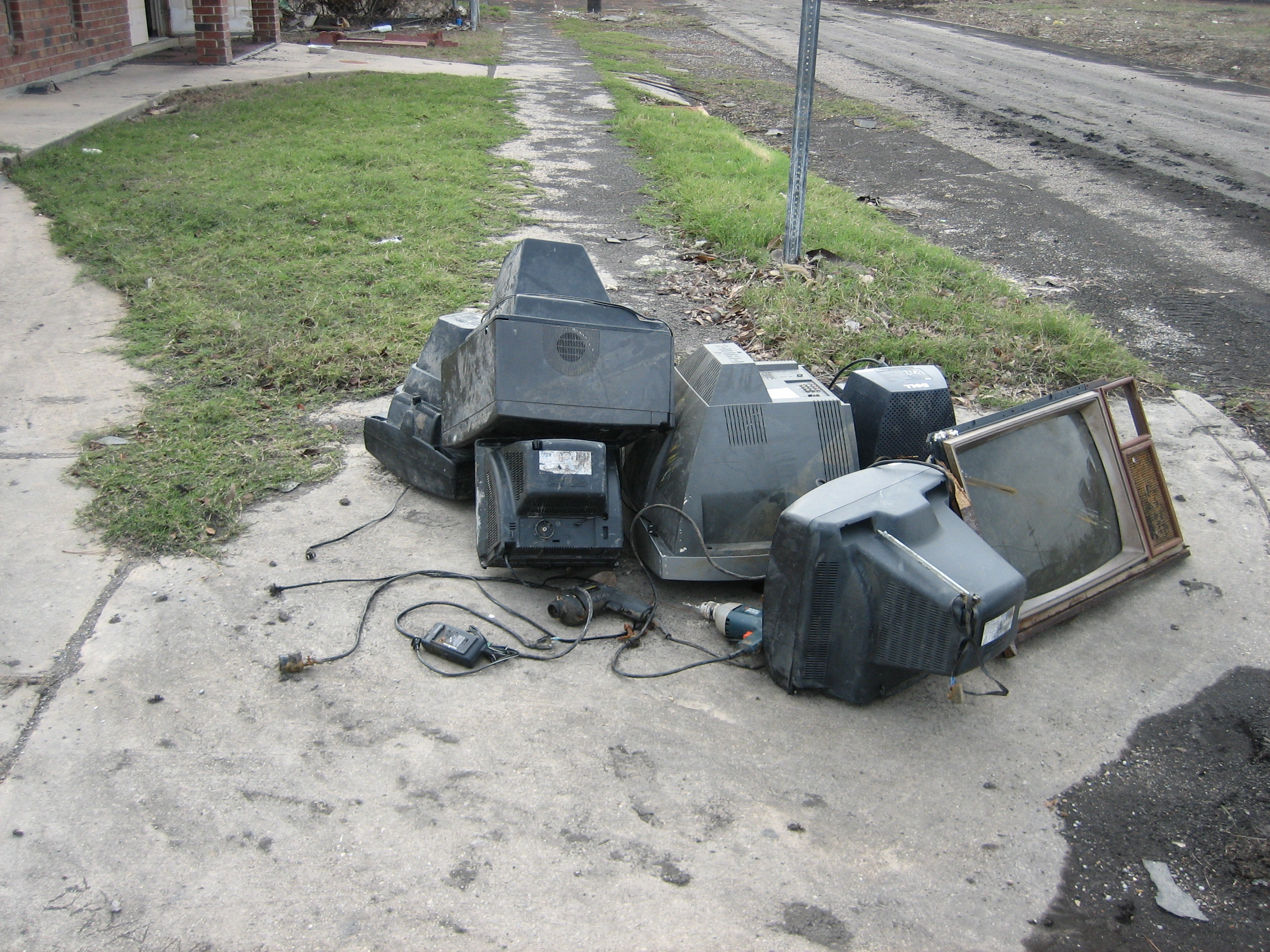 New Orleans after Hurricane Katrina: Scene in flood in devastated Lower 9th Ward. Pile of defunct televisions set on curb. Photo by Infrogmation of New Orleans, 9 December 2005